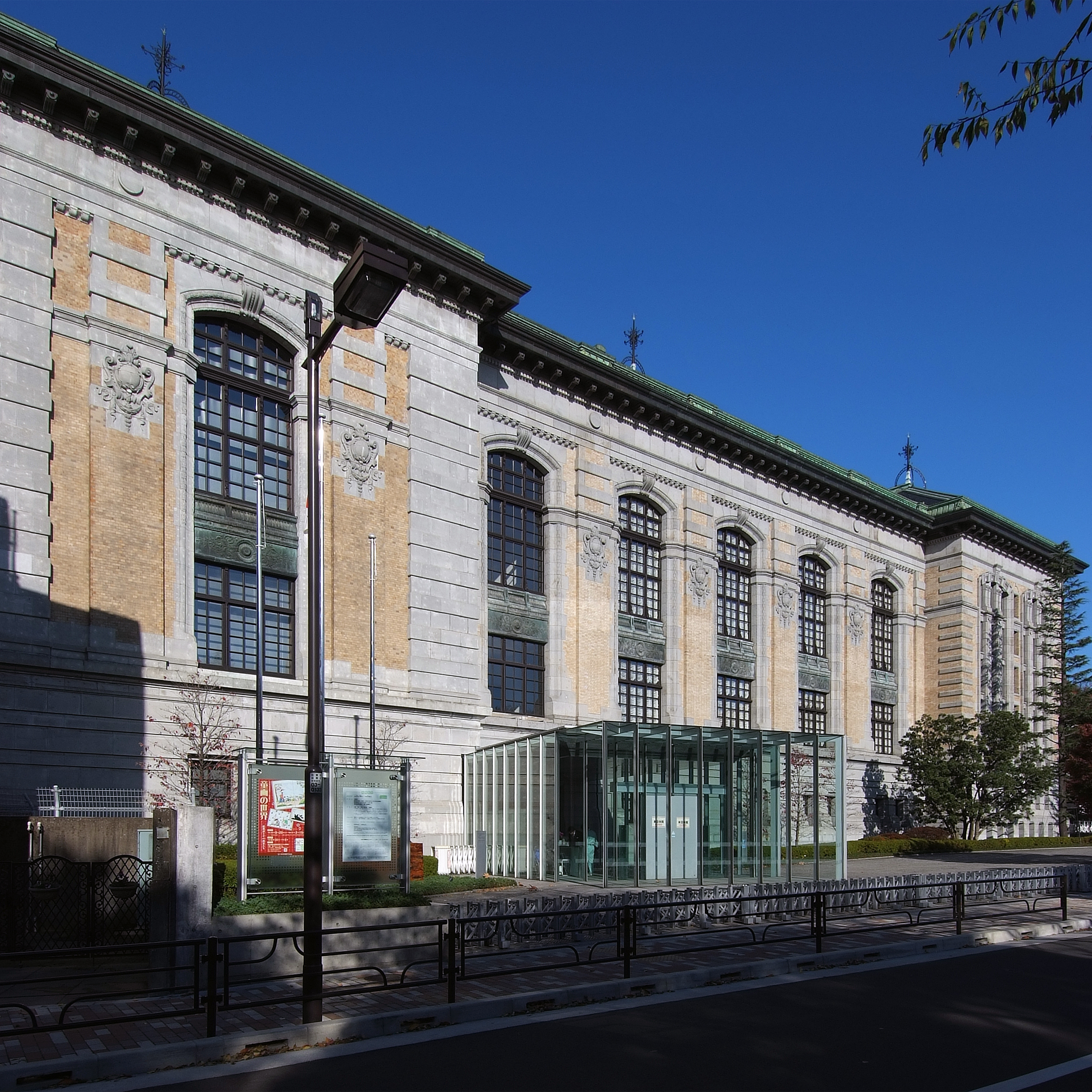 The International Library of Children's Literature in Japan (former Imperial Library), at Ueno Tokyo Japan.